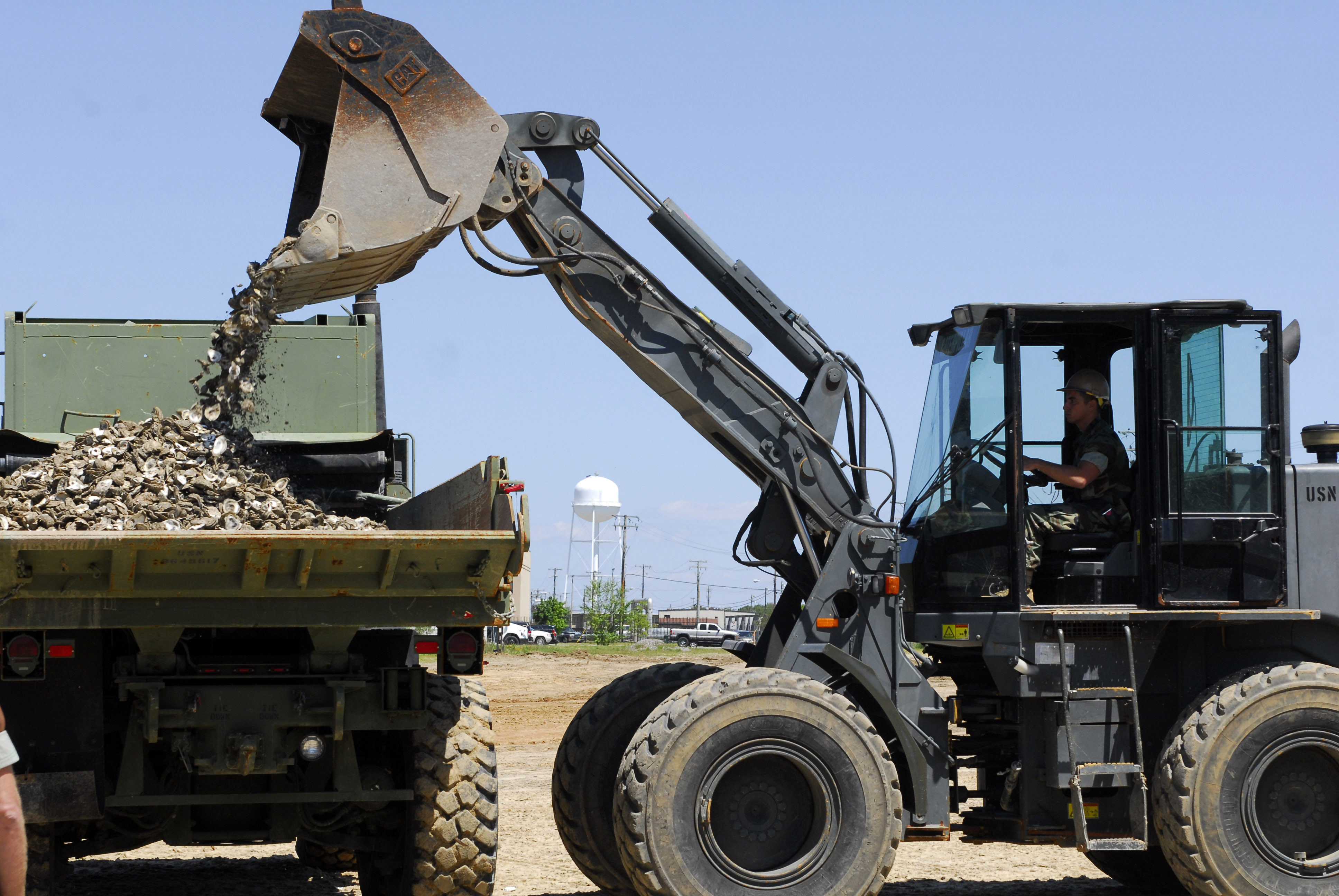 VIRGINIA BEACH, Va. (April 28, 2010) Sailors assigned to Amphibious Construction Battalion (ACB) 2, use heavy machinery to load oyster shells for two new artificial oyster reef sites in the mud flats of Little Creek Cove. The oysters are the naturally occurring Eastern oyster, Crassostrea virginica, which can filter 50 gallons of water individually each day. (U.S. Navy photo by Mass Communication Specialist Seaman Scott Pittman/Released)